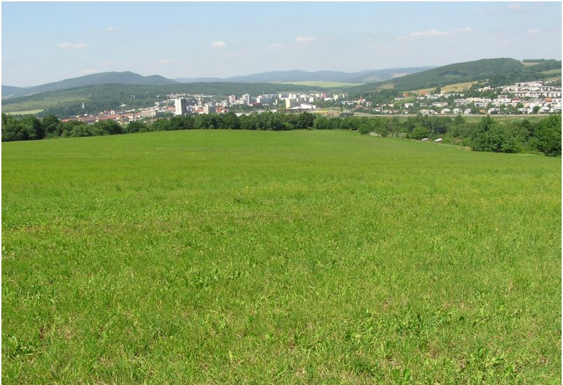 Panoramic view of Svidník